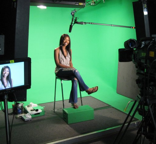 R&B singer Brandy on the set of her TV show A Family Business